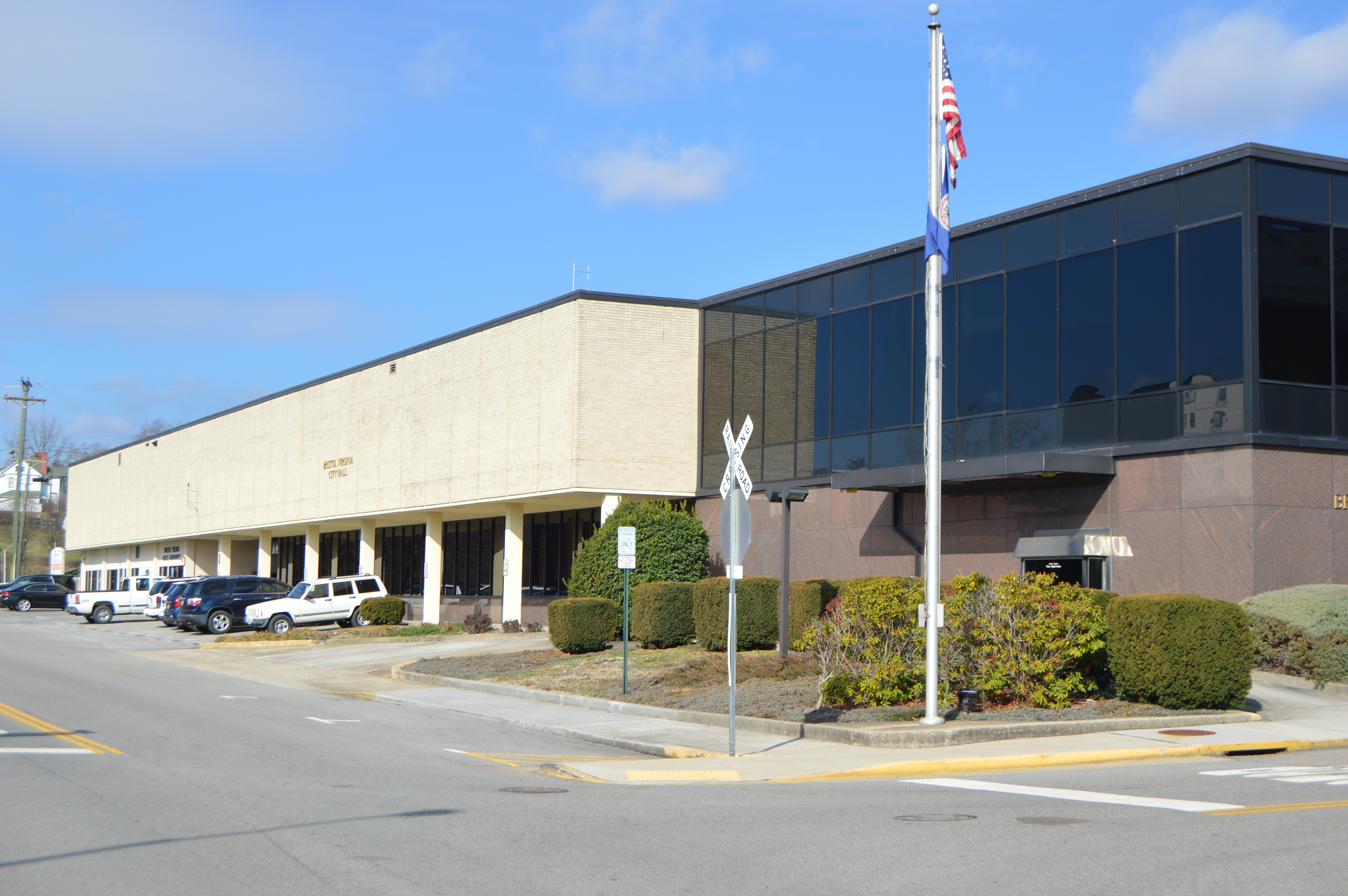 Southern side of the Bristol city hall, located at 300 Lee Street in Bristol, Virginia, United States.